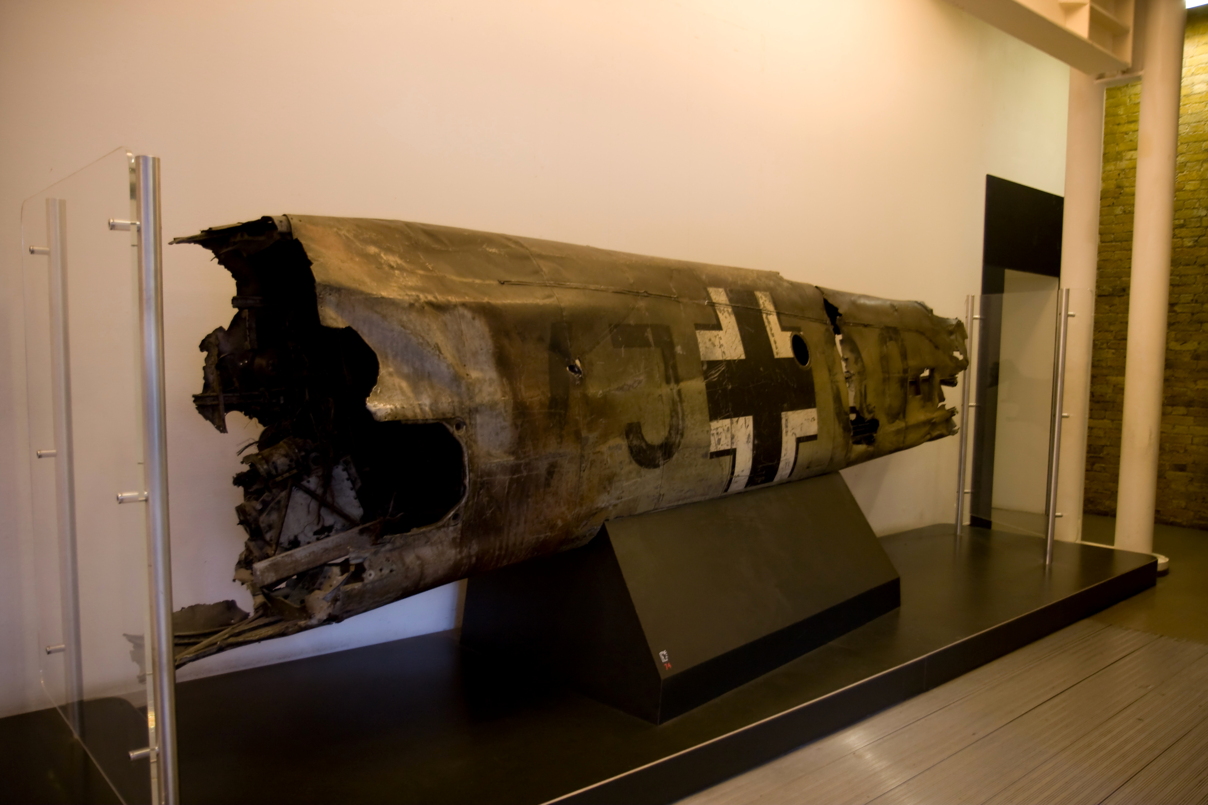 Part of the remains of the Messerschmitt BF-110 aircraft which Rudolph Hess flew to Britain in, in World War II.